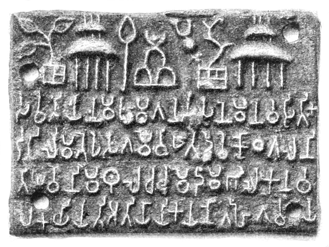 Soghaura inscription